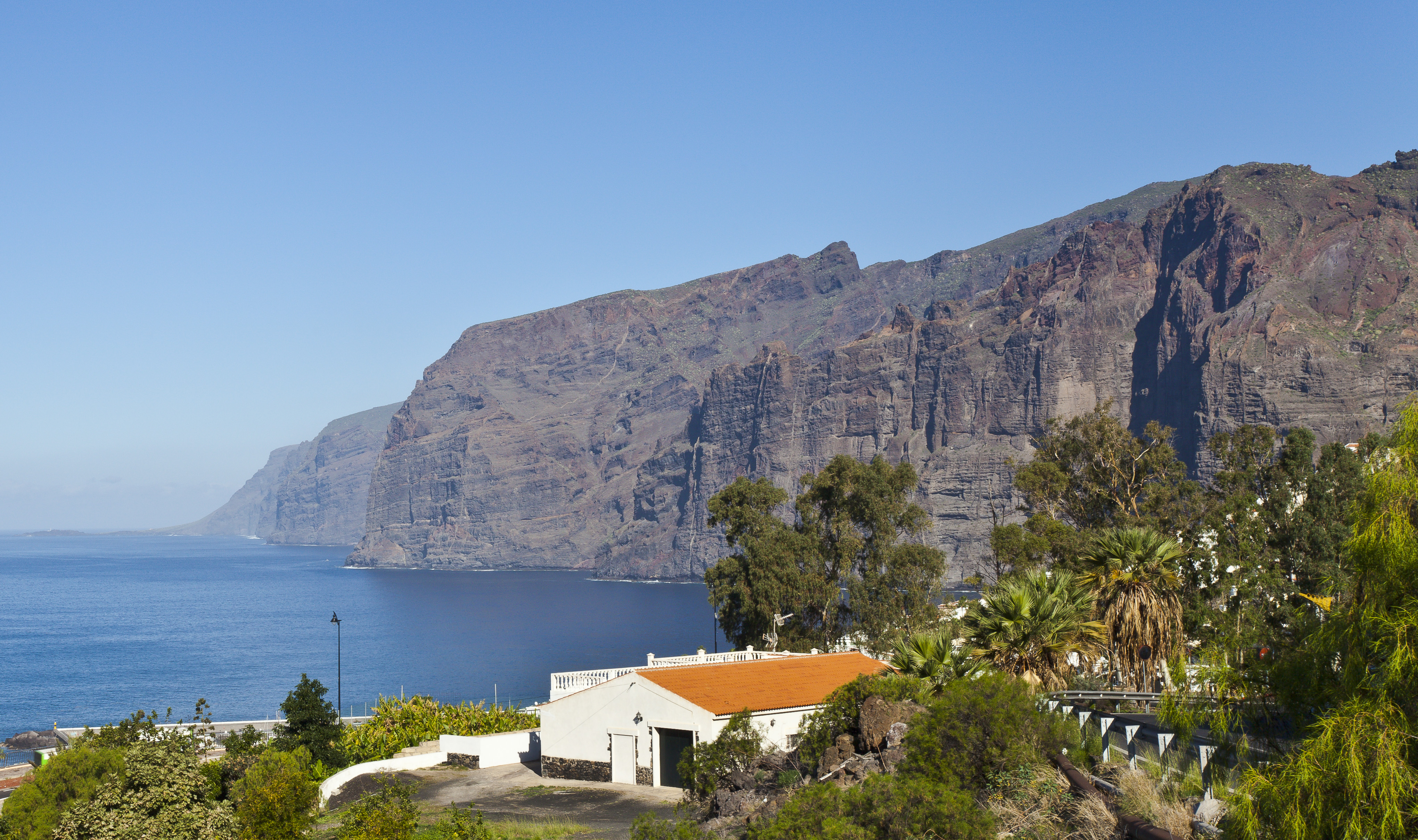 Los Gigantes, Tenerife, Spain